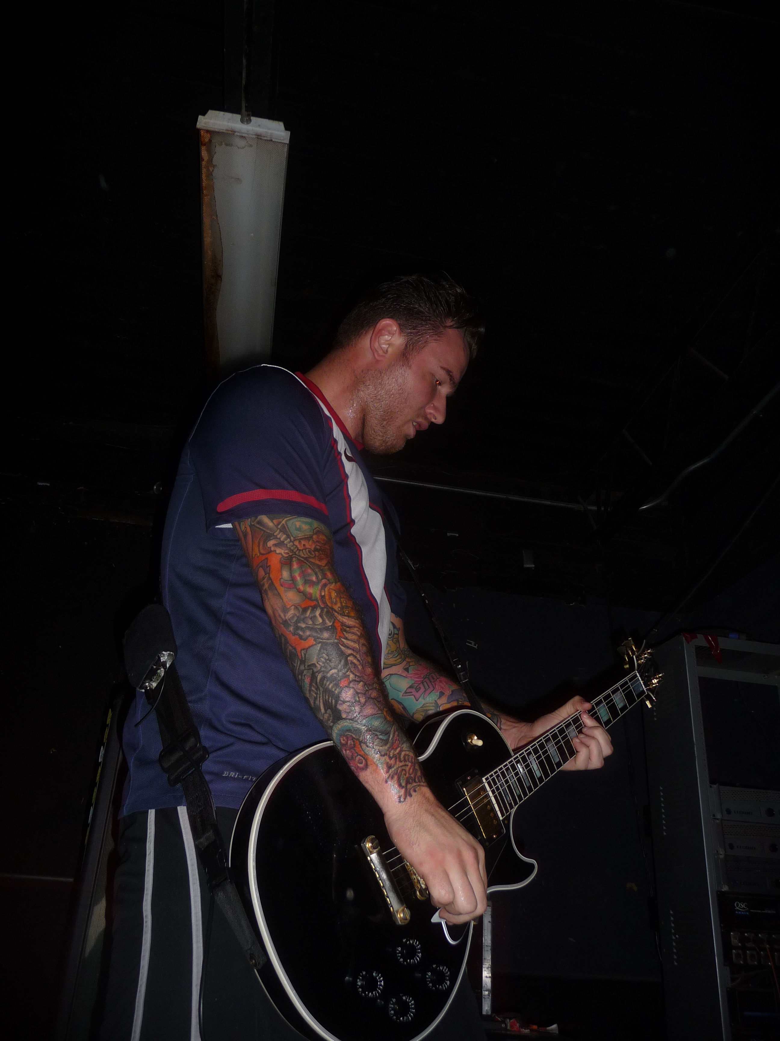 Chad Gilbert performing on 11 September 2010